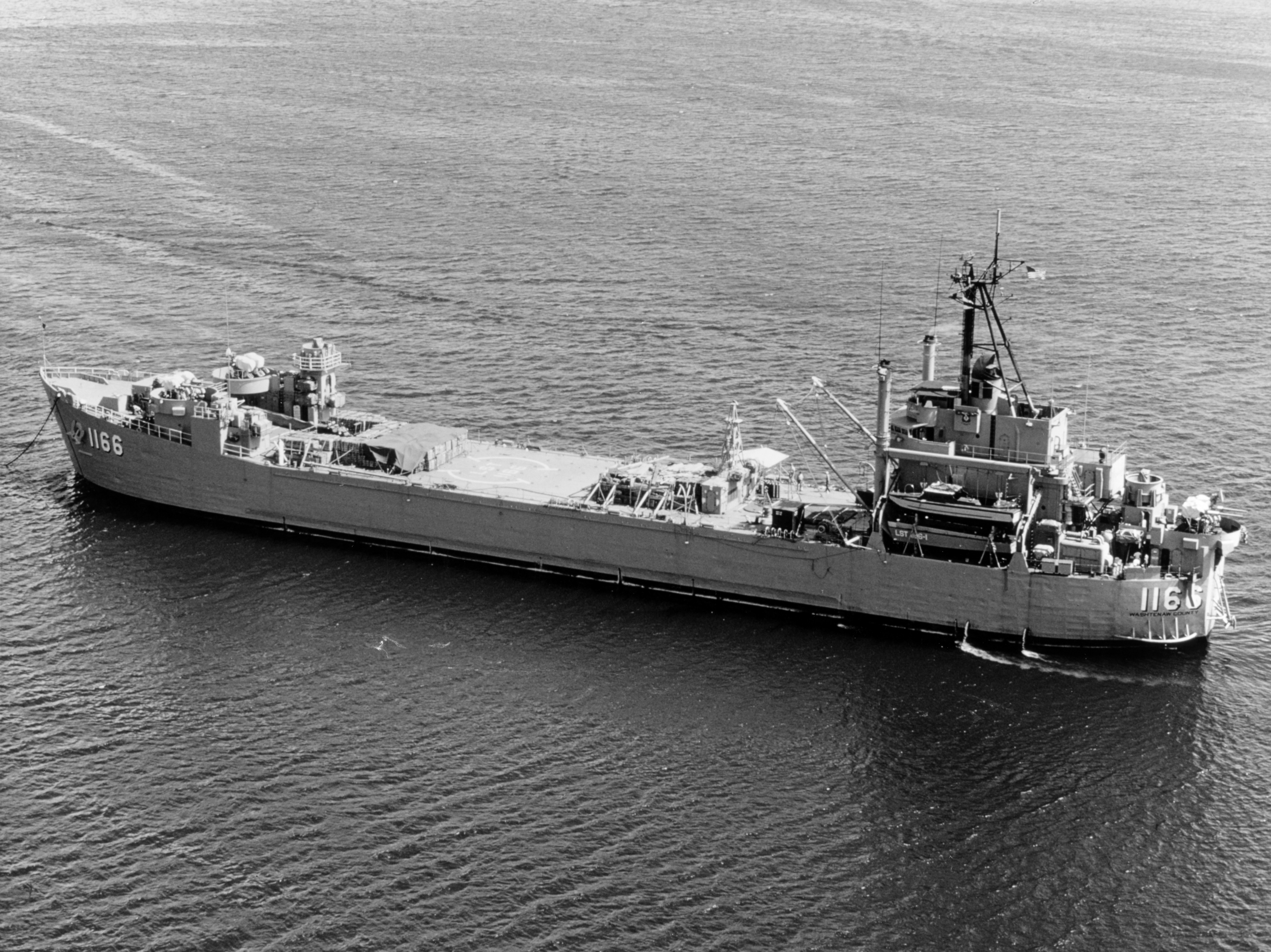 The U.S. Navy tank landing ship USS Washtenaw County (LST-1166) moored in Subic Bay, Philippines, 4 October 1969. Washtenaw County was converted into a "Special Minesweeper Ship" and redesignated USS Washtenaw County (MSS-2) on 9 February 1973. After serving only a few months in that role, she was decommissioned and struck from the Naval Register on 30 August 1973.